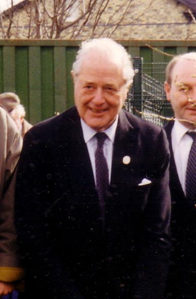 Sir Dermot de Trafford pictured at St Ann's School, Stretford, planting a tree to commemorate the opening of the new Nursery school